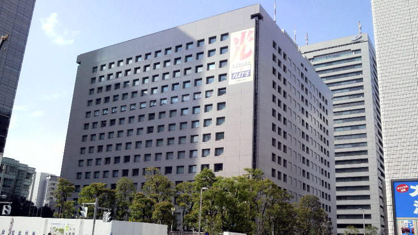 shinagawa Twins